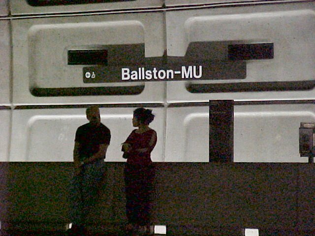 Ballston-MU station